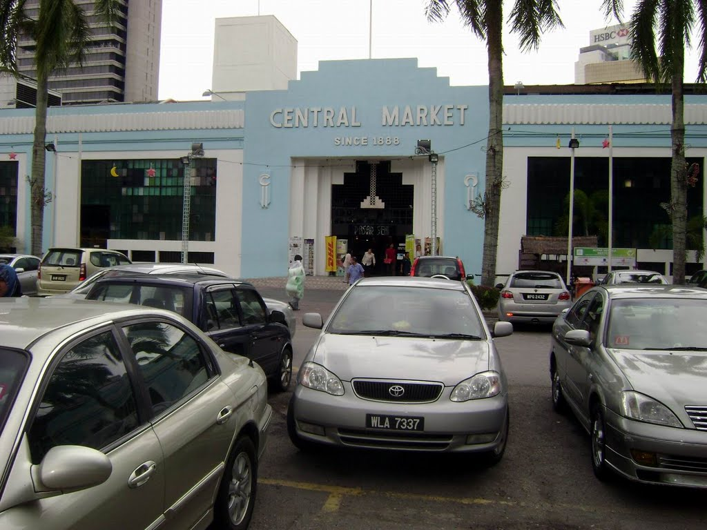 Central Market, KL, Malaysia